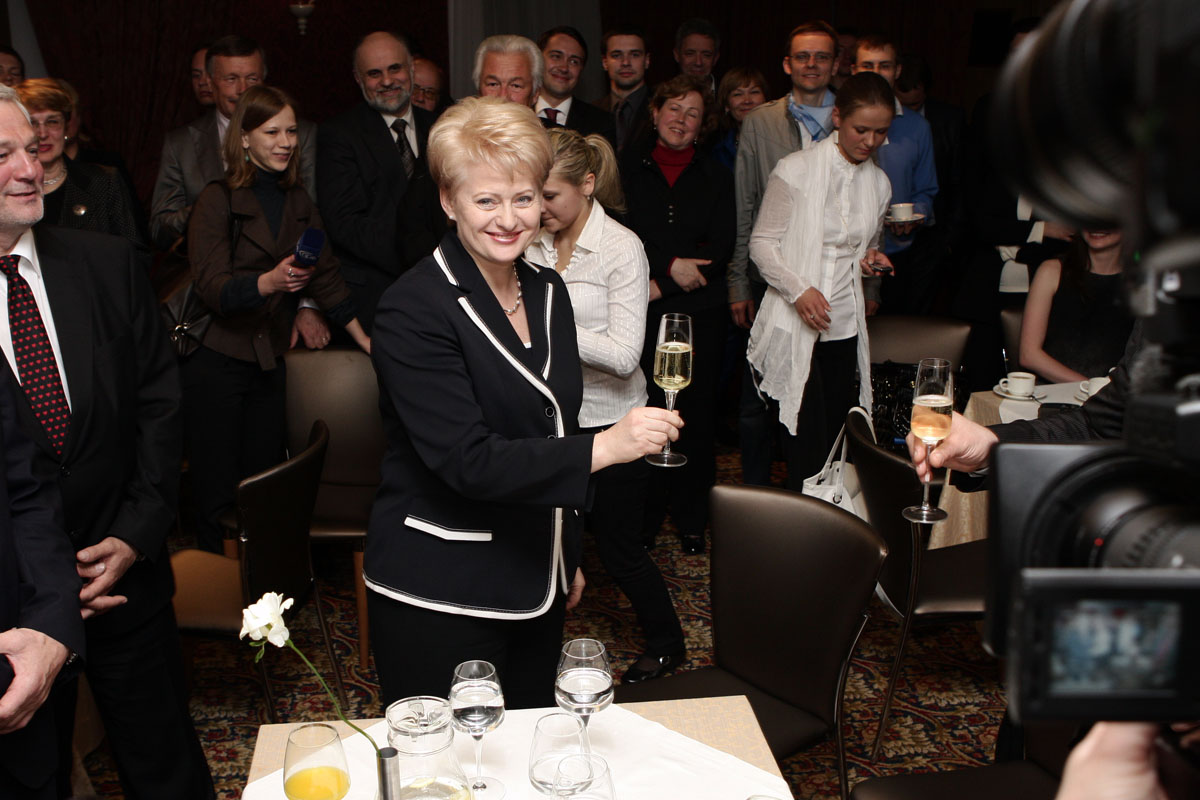 Presidential election of Lithuania, 2009-05-17. Dalia Grybauskaitė and supporters waiting for results.